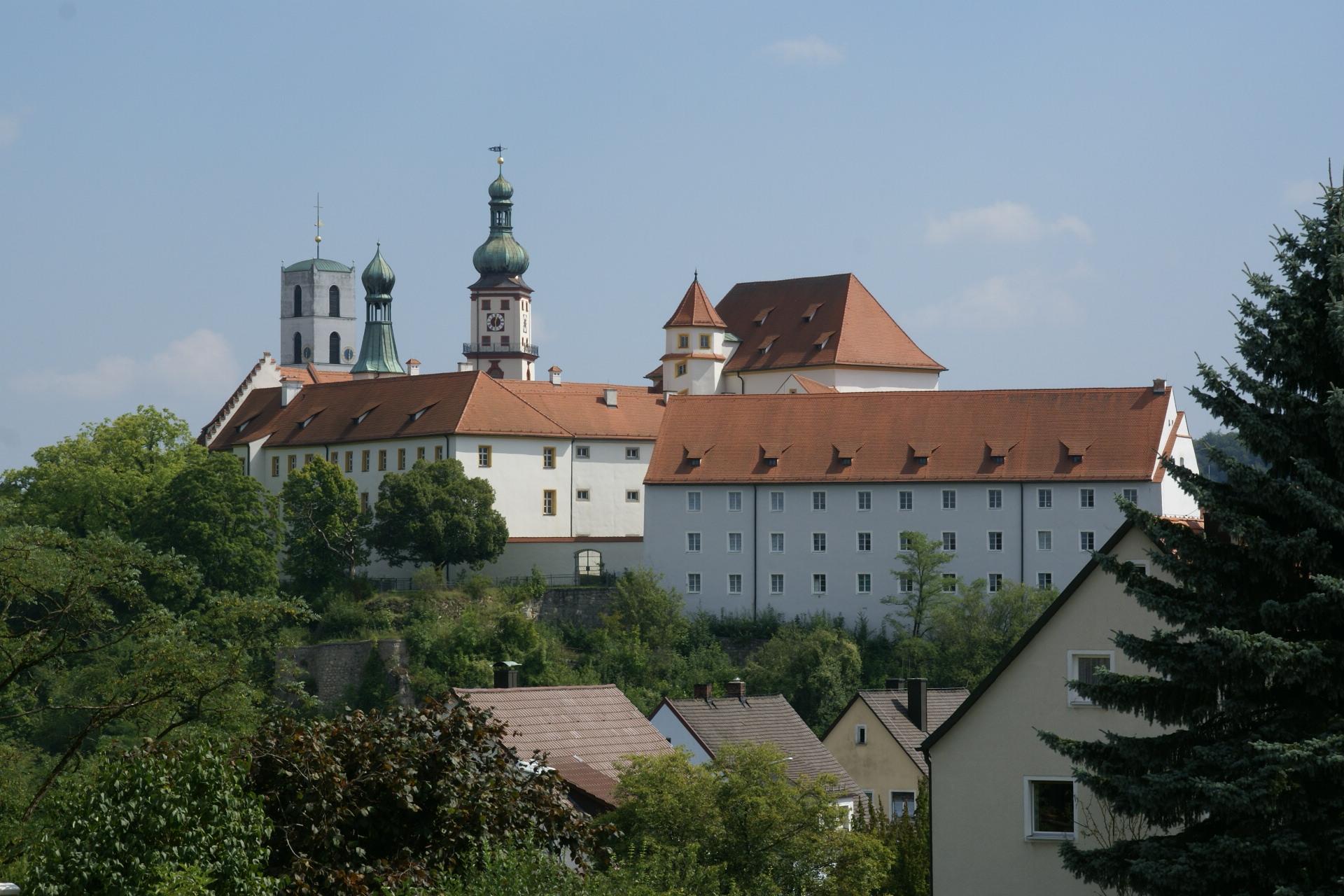 Burg in Sulzbach-Rosenberg (Germany)